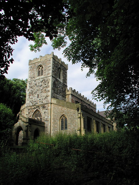 All Saints Church, Roos, East Riding of Yorkshire, England.Although there has been a church at Roos since at least 1086, the oldest structural elements of the existing church seem to date from the 13th century. It was being regularly and extensively remodelled right up until the end of the 19th century.